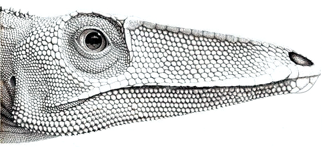 Reconstruction of Coelophysis rhodesiensis.